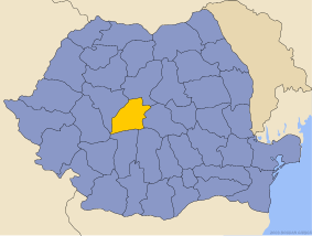 Location of Sibiu County in Romania.